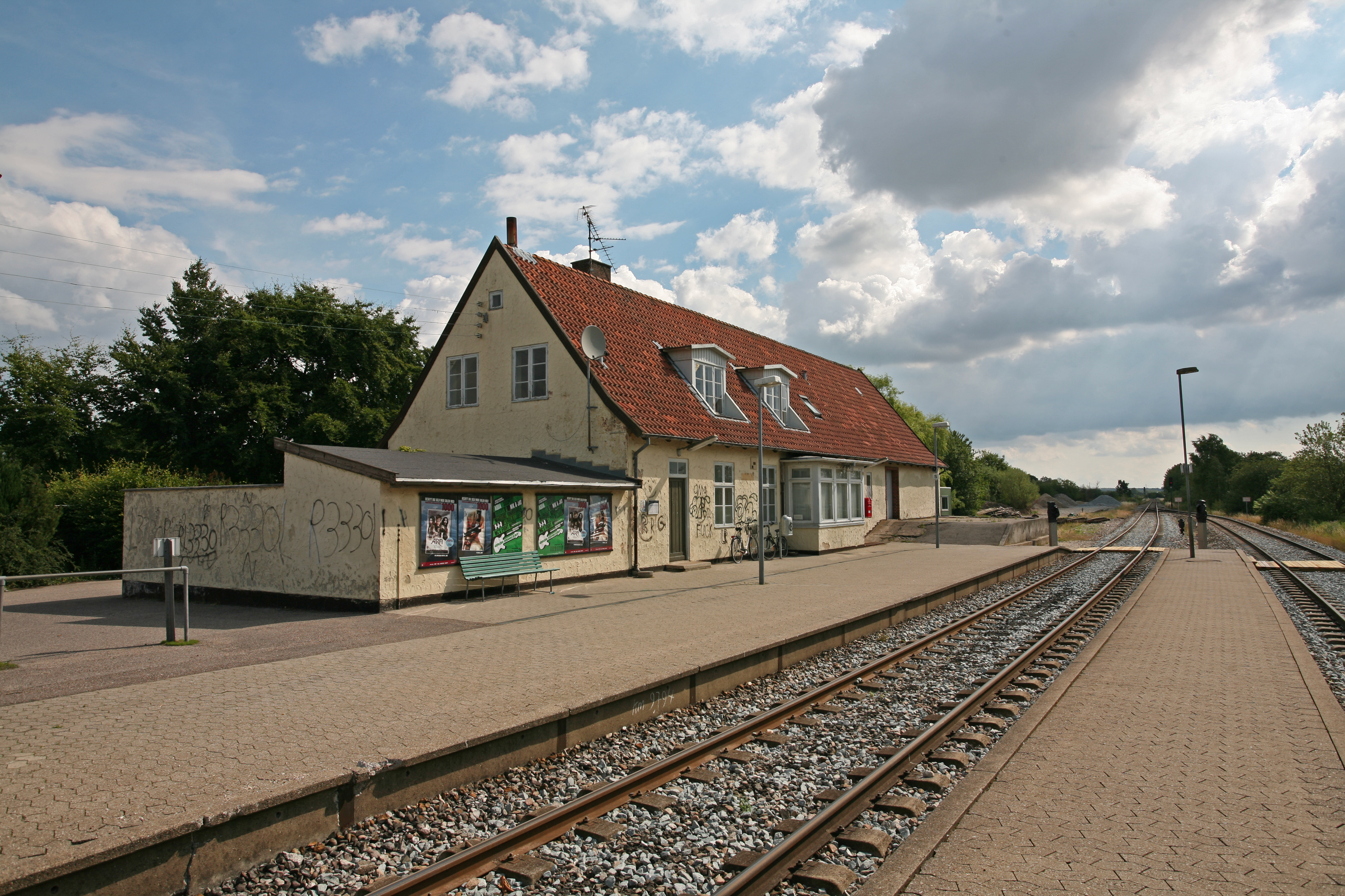 Picture of Gørløse Railway Station (Gørløse - Denmark)